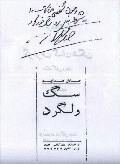 This is the cover of Hedayat's "The Stray Dog", with his handwriting